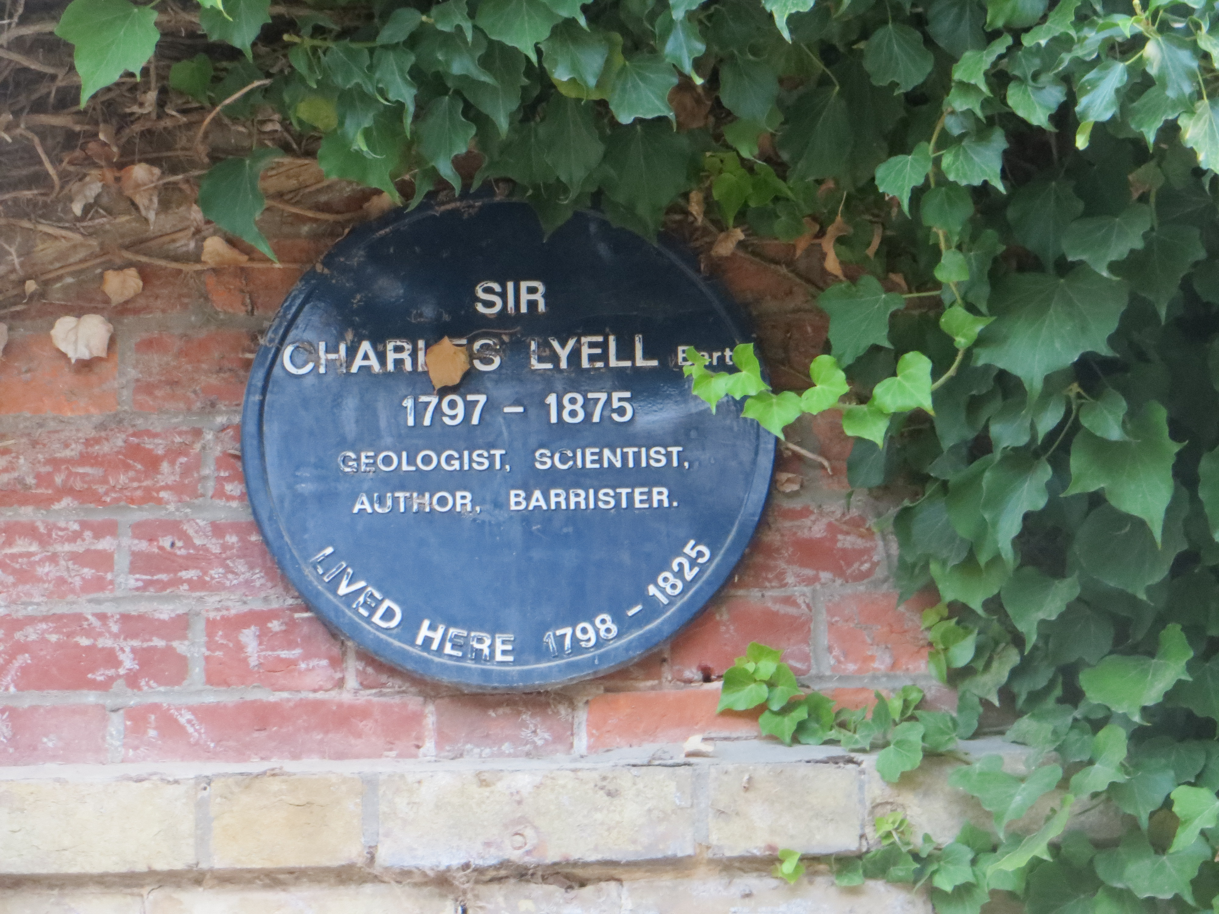 "Sir Charles Lyell, Bart, 1797-1875 Geologist, Scientist, Author. Barrister lived here [Bartley Lodge] 1798-1825."